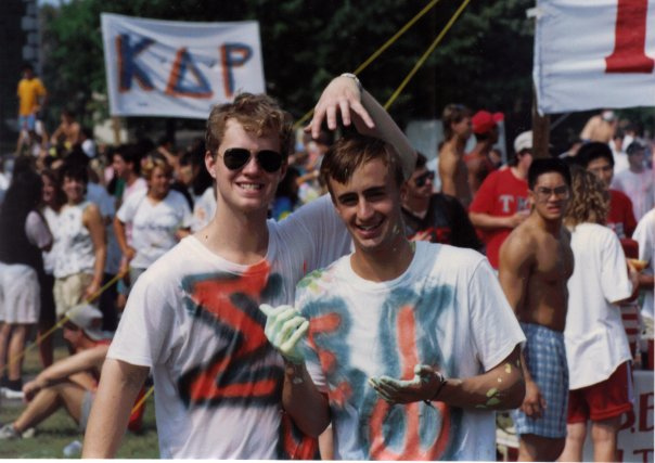 Frat boy.